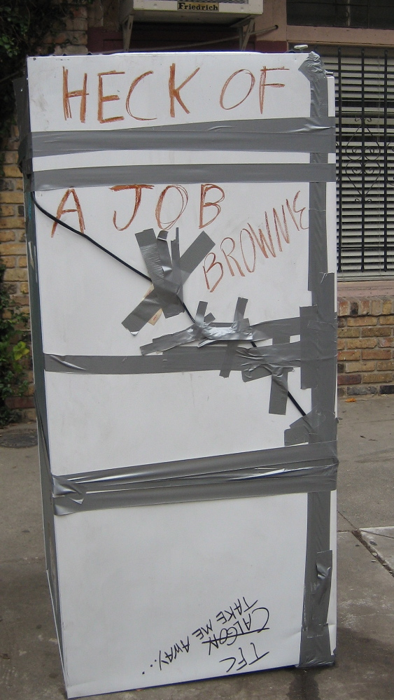 New Orleans after Hurricane Katrina: Trash refrigerator on curb with graffiti "Heck of a job, Brownie". Sarcastic reference to George W. Bush's words of praise for FEMA director Michael D.Brown aka "Brownie". Photo by Infrogmation